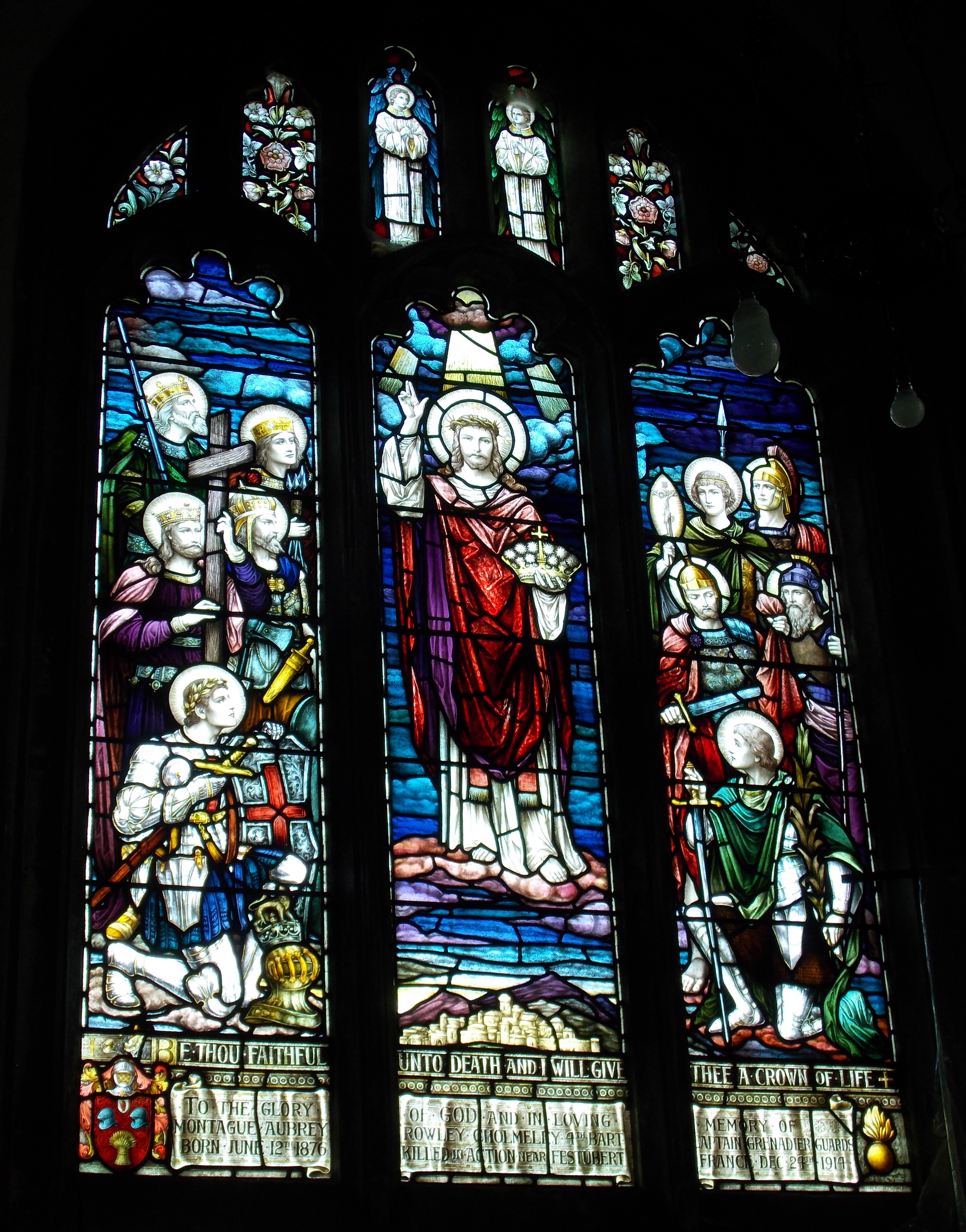 South chapel east window in the parish church of SS Andrew & Mary, Stoke Rochford, Kesteven, Lincolnshire, dedicated to Sir Montague Aubrey Rowley Cholmeley